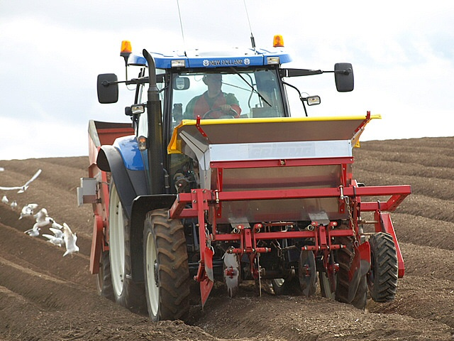 Modern equipment at Kinloch Farm. The front machine pores a hole and puts fertiliser and a potato into the holes it has rapidly dug, then the rear gadget makes the dreels shapely.